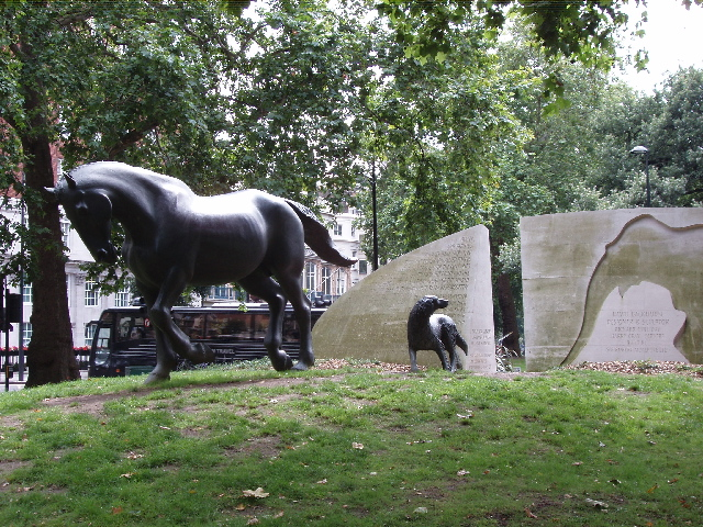 "Animals in War" memorial, north side. This side of the memorial has bronzes of a horse and a dog, on their way out of a gap in the wall. The other side of the memorial has a bas relief of many of the animals used in war, with bronzes of two of them heading for the gap in the wall. That is shown in 419448, which has details of the memorial in Park Lane.